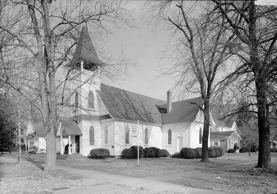 Christ Episcopal Church & Parish House, 302 West Third Street, South Pittsburg, Marion County, TN: GENERAL VIEW FROM SOUTH SHOWING CHURCH AND ENVIRONS